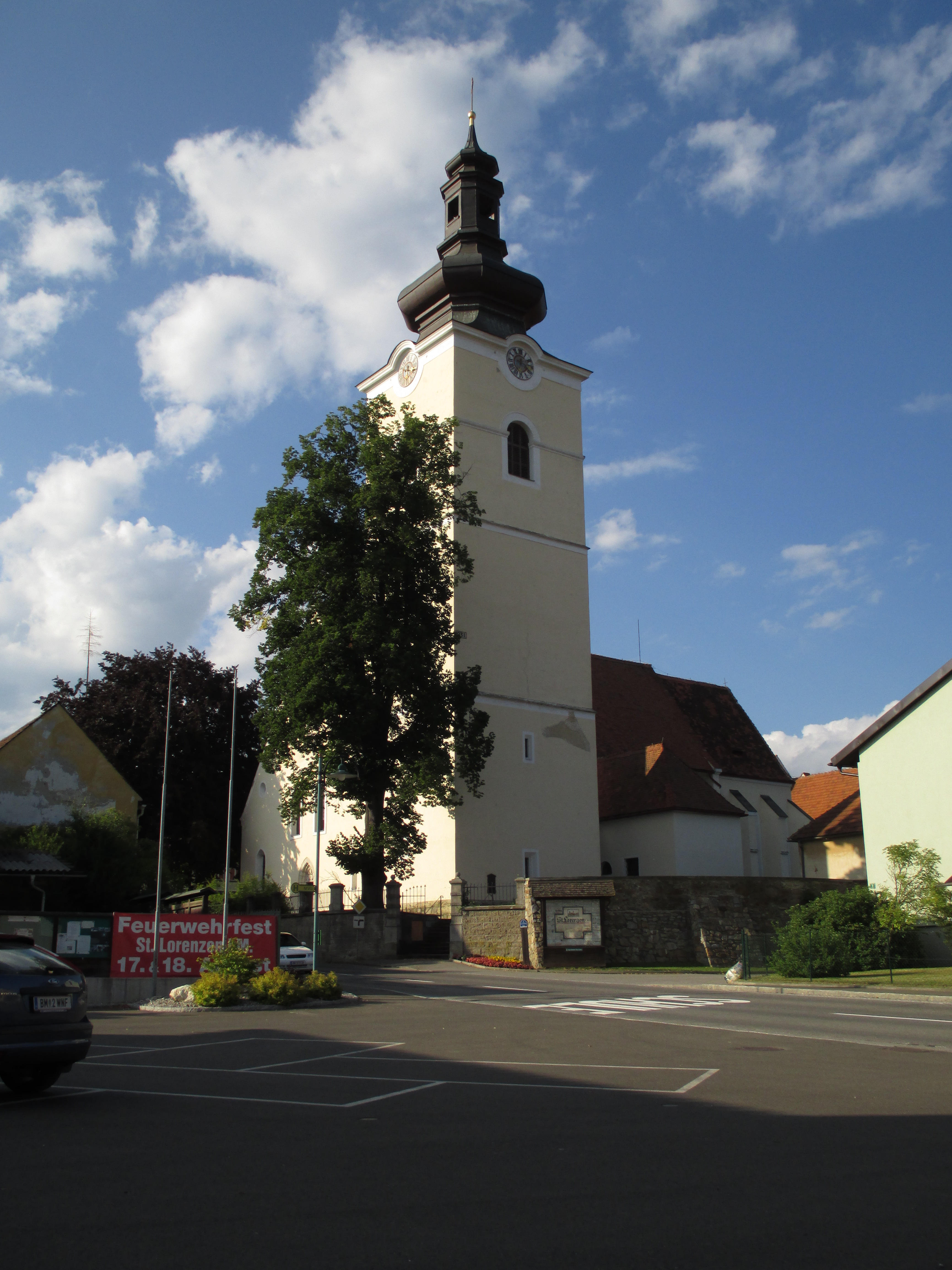 Church St. Lorenzen im Mürztal